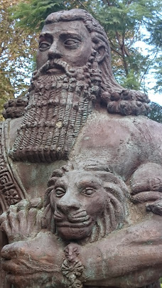 Gilgamesh Statue Sydney University